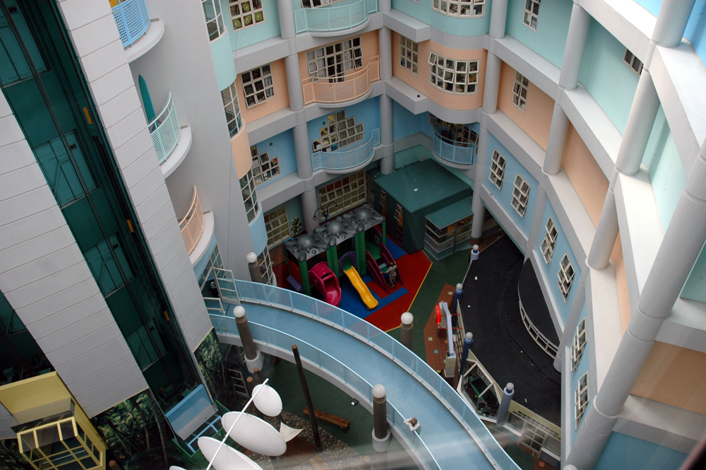 Interior of Starship Children's Hospital in Auckland, New Zealand, from above.